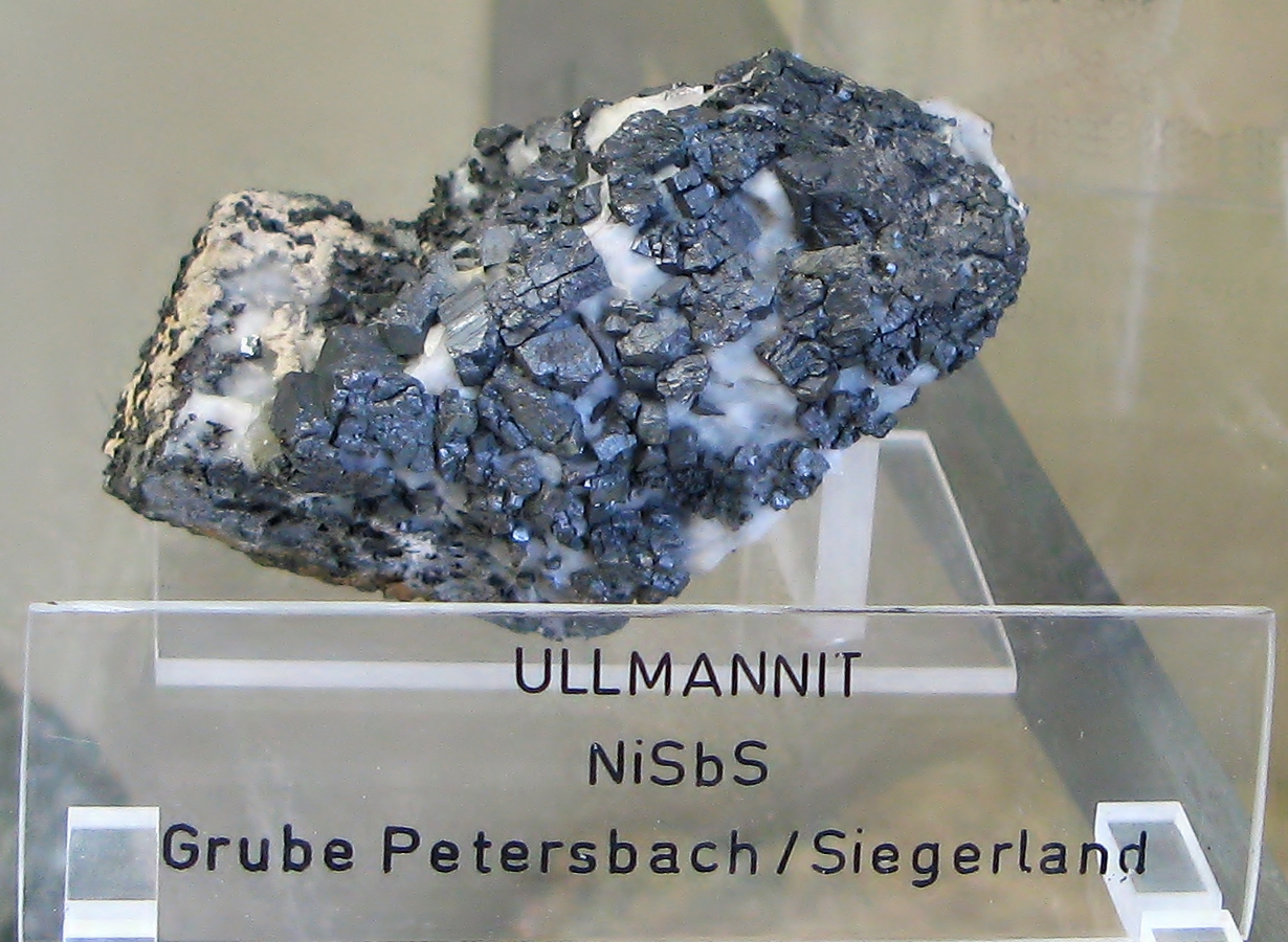 Ullmannite - Locality: Grube Petersbach, Siegerland - Exposed in the Mineralogical Museum, Bonn, Germany